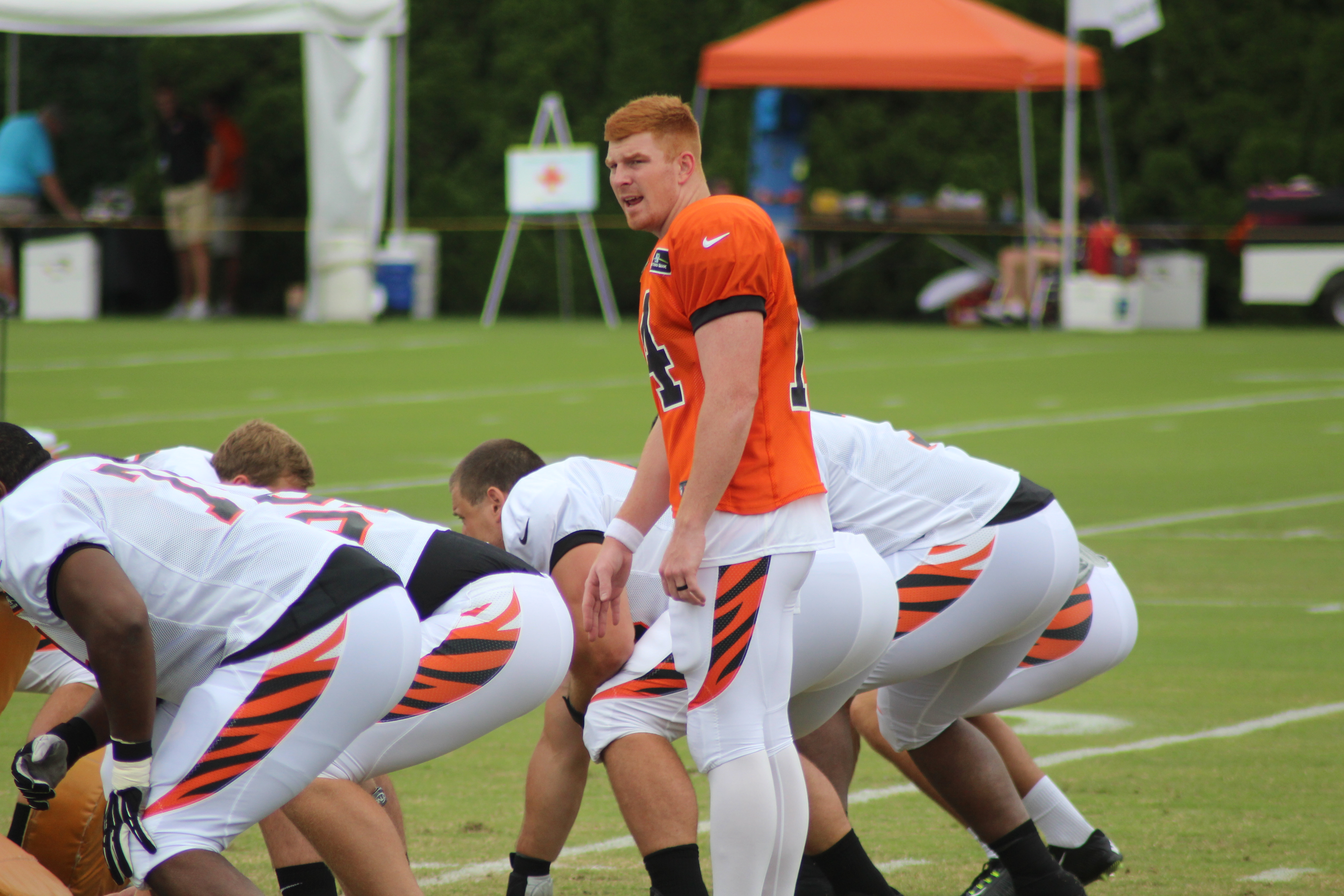 Andy Dalton at 2014 Bengals training camp.